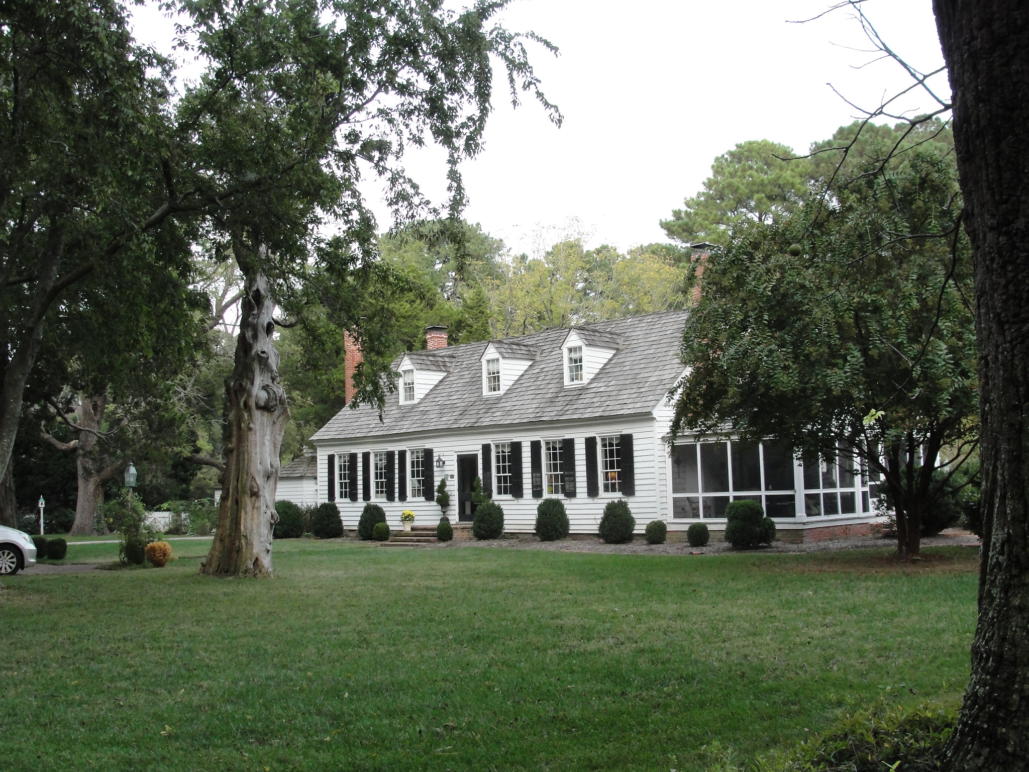 The Hermitage